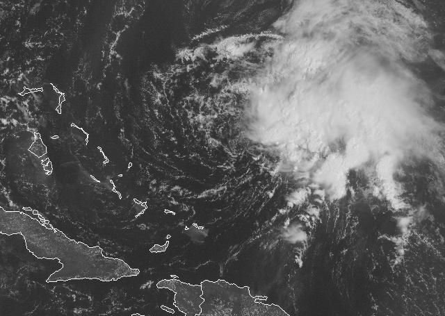 Tropical Storm Danny (2009) forming east of the Bahamas on August 26. Photographed in visible light by GOES Atlantic Floater 1